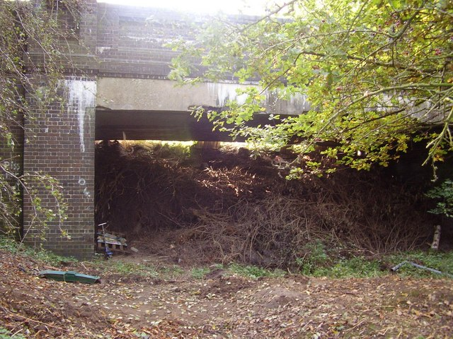 Aldeby railway station Original description: Aldeby station road bridge